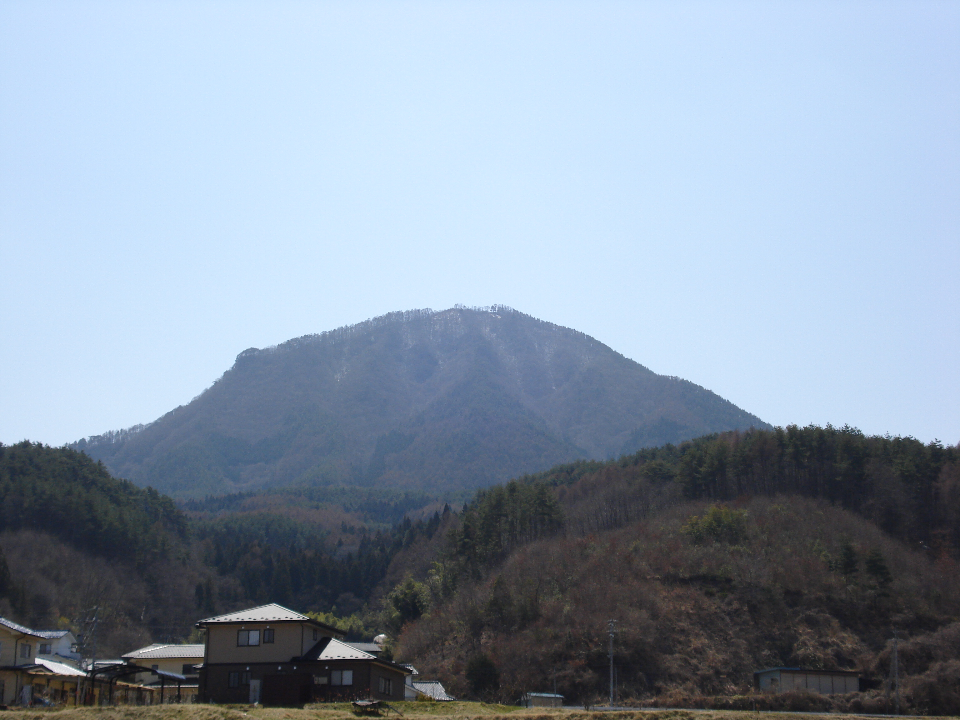 Mount Okami (Okami-dake) seen from the north, in the boder of between Aoki and Ueda, Nagano Prefecture, Japan.